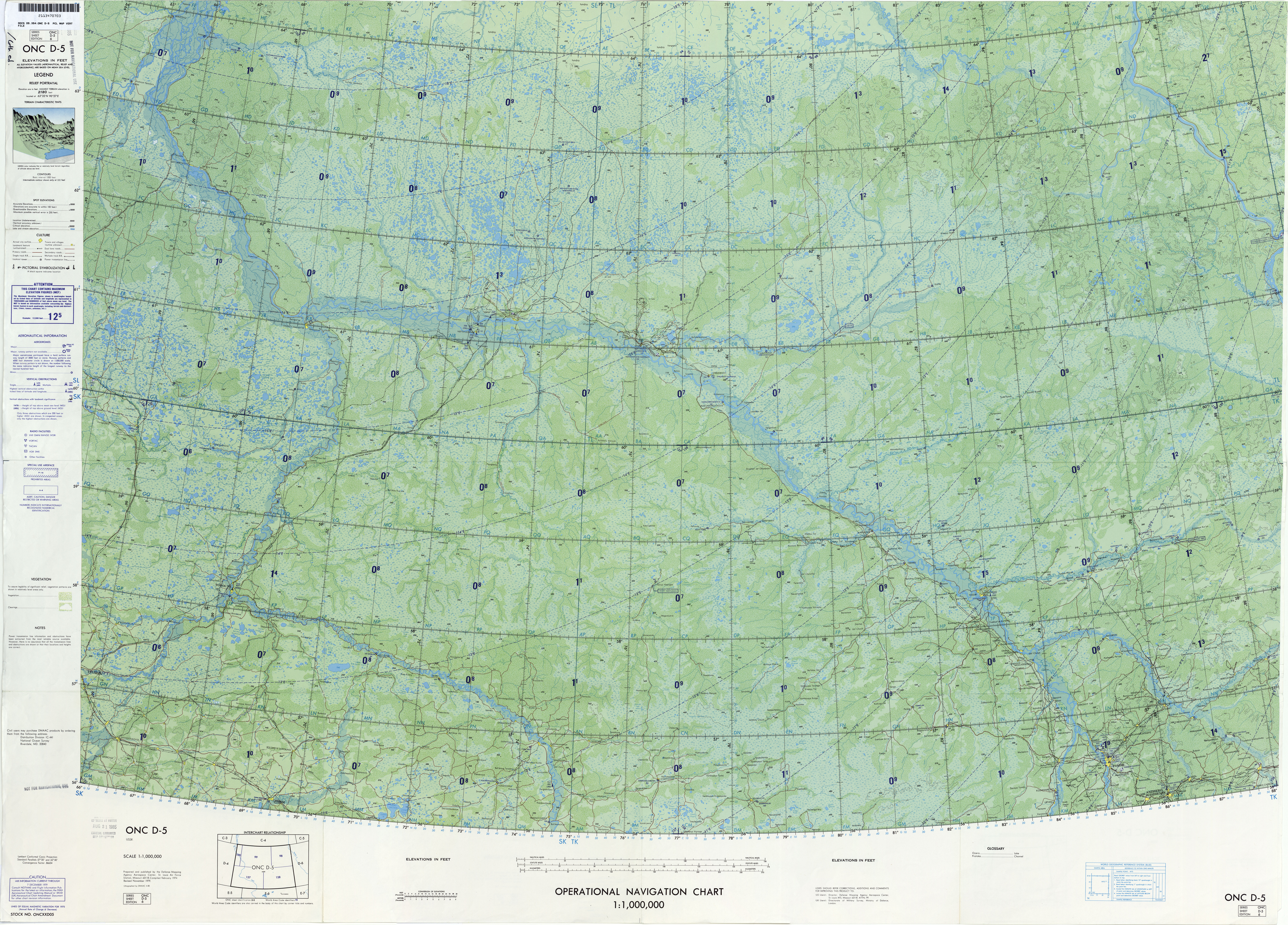 1:1,000,000 scale Operational Navigation Chart, Sheet D-5, 6th edition. Covers the U.S.S.R. Lambert Conformal Conic Projection. Standard Parallels 57 20N and 62 40N. Center longitude 77E.